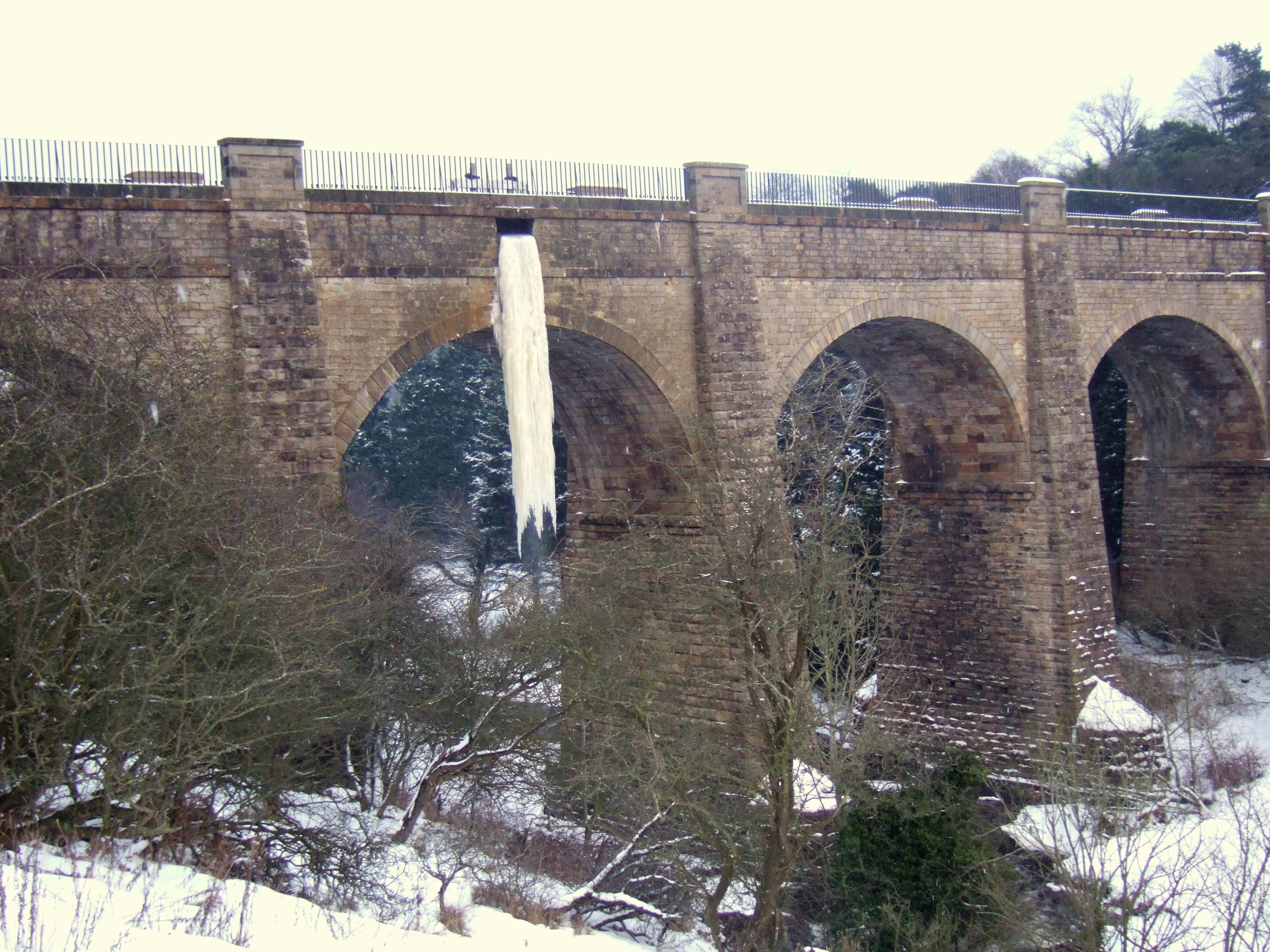 Frozen icicle at the Almond Aqueduct overflow channel of the Union canal, near Ratho, Edinburgh